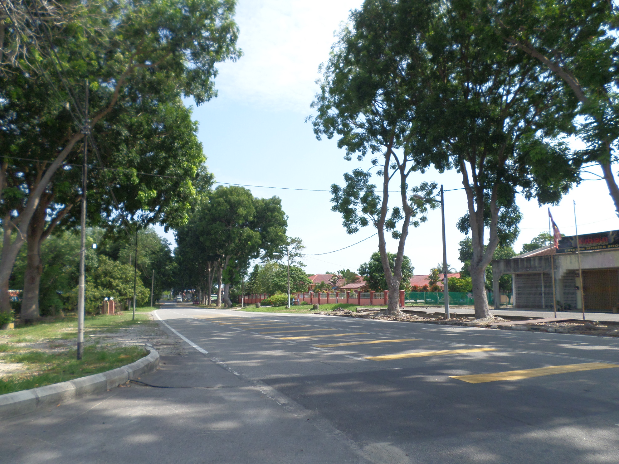 Serkam, Jasin, Malacca, MalaysiaBahasa Melayu: Serkam, Jasin, Melaka, Malaysia